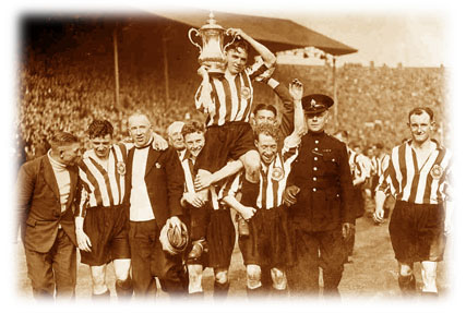 This photograph is the property of the Sunderland Echo. Full permission for use will be sent shortly. Anyone wanting to buy this picture at full size can contact the Sunderland Echo on 0191 501 5800.